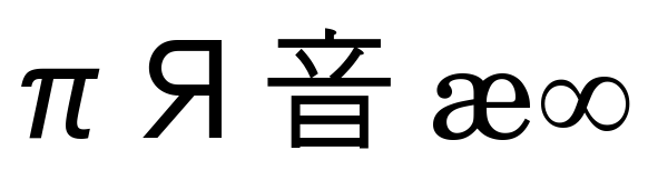 This is a screenshot of rendering extended Unicode characters from several code blocks in order to demonstrate the modern handling of Unicode characters by desktop applications. The characters in use are: U+03C0 GREEK SMALL LETTER PI U+042F CYRILLIC CAPITAL LETTER YA U+97F3 CJK UNIFIED IDEOGRAPH-97F3 U+00E6 LATIN SMALL LETTER AE U+221E INFINITY